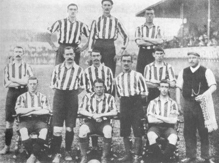 The Southampton Football Club squad for the 1901-02 season. C. B. Fry is standing at the rear, first on the left